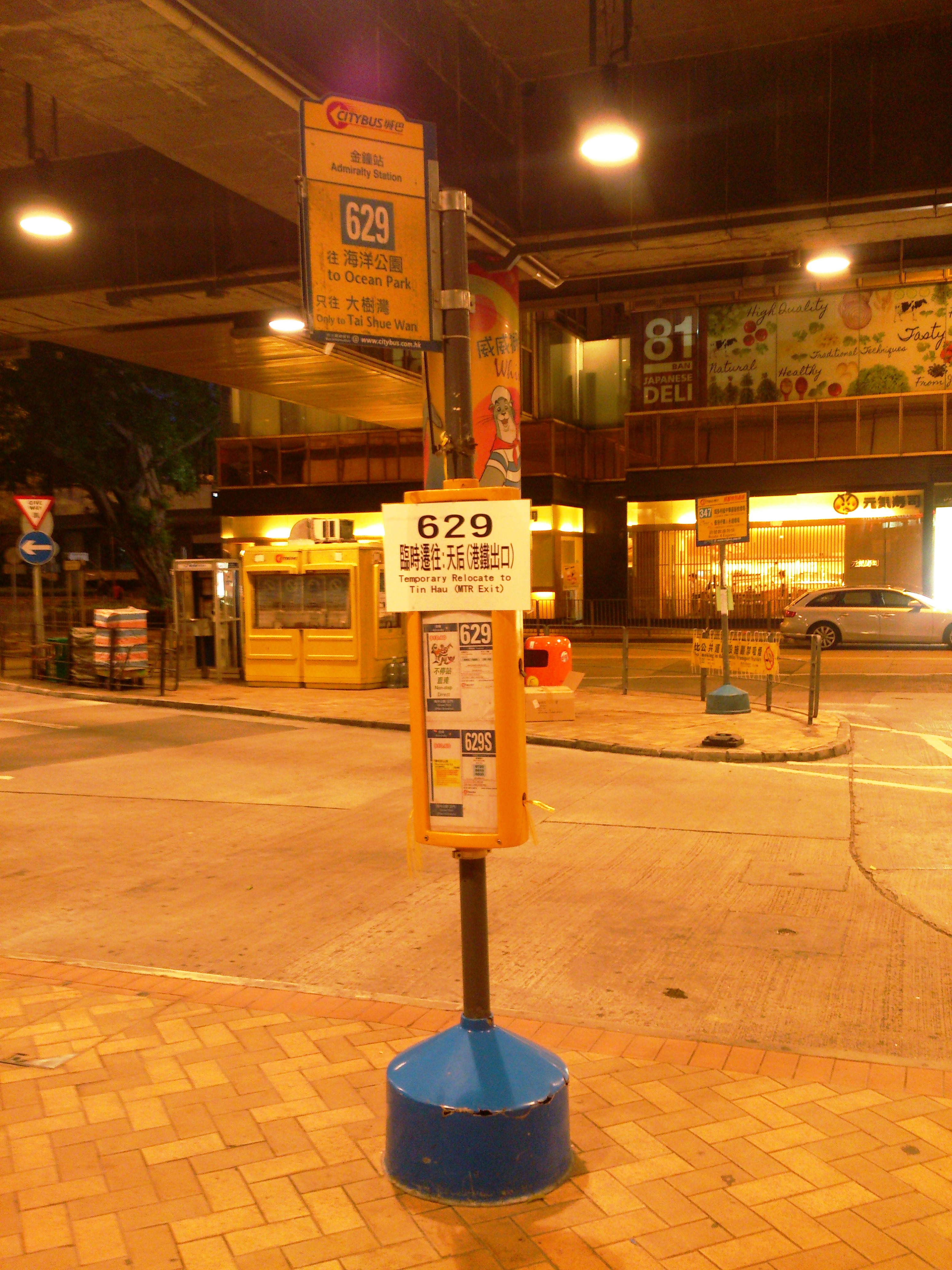 Suspended Bus stop of Route 629 in Admiralty (West) Terminus on 2014-10-29